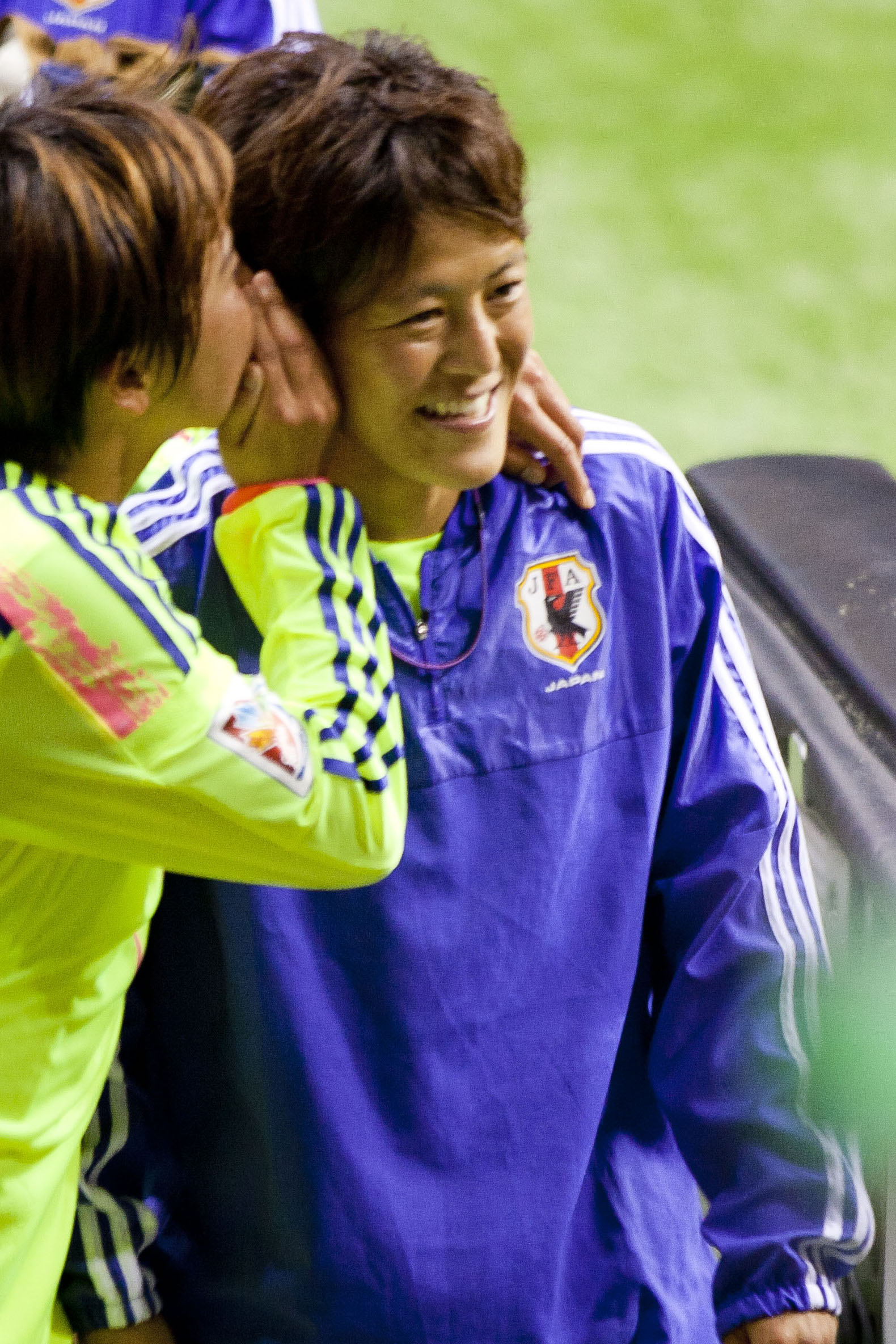 FIFA Women's World Cup Canada June 12th, 2015